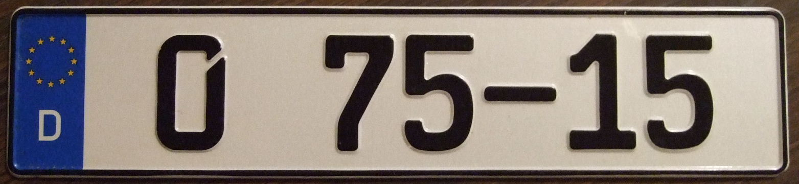 The "75" in the serial number denotes the Canadian Embassy.